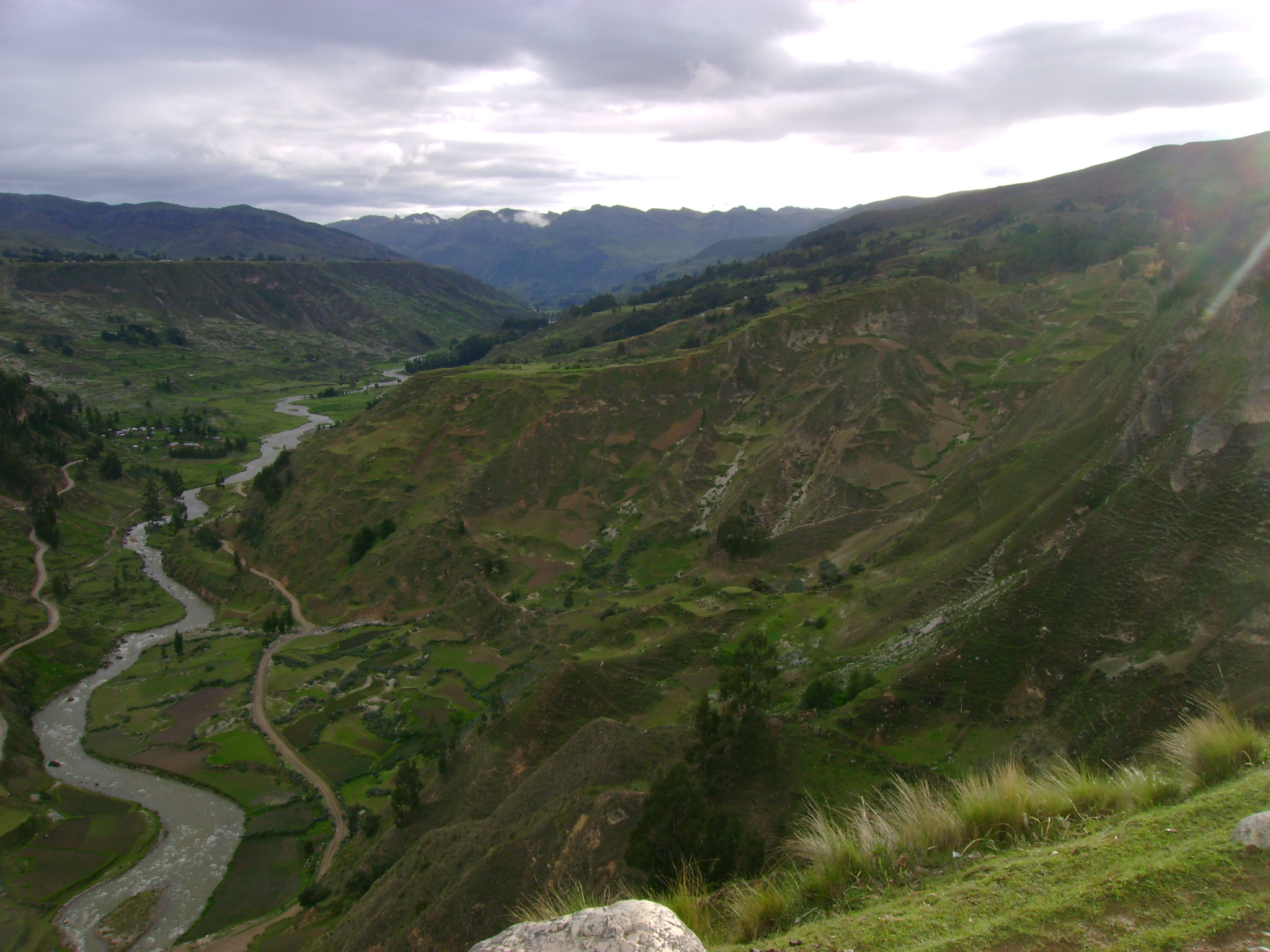 Nupe river see from Rondos' viewpoint.